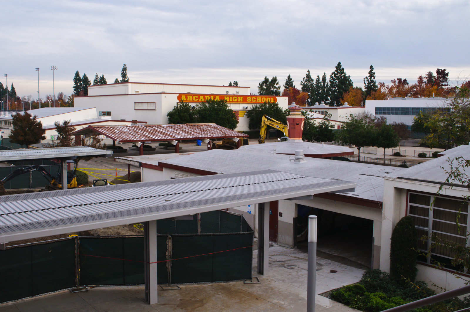 Doing a Christmas afternoon photo session on the campus of Arcadia High School. Arcadia is located just east of Pasadena, and 20 miles northeast of Los Angeles; thanks to Arcadia being home to Santa Anita Racetrack, Arcadia's public schools are better funded than in the rest of California, and Arcadia has developed a legendary status among wealthy Asian immigrants (especially those from Taiwan) as a result. Having once lived in Arcadia myself, it's always nice to come back for a new look. The lunch patio area is a mad construction zone for the 2012-2013 school year. Most of the campus dates from the school's 1952 founding, and the buildings are being rehabilitated in phases, to add air conditioning, new windows, and other modern amenities. The renovations are being funded by a 2006 bond measure. The big building in the background is the north gymnasium.